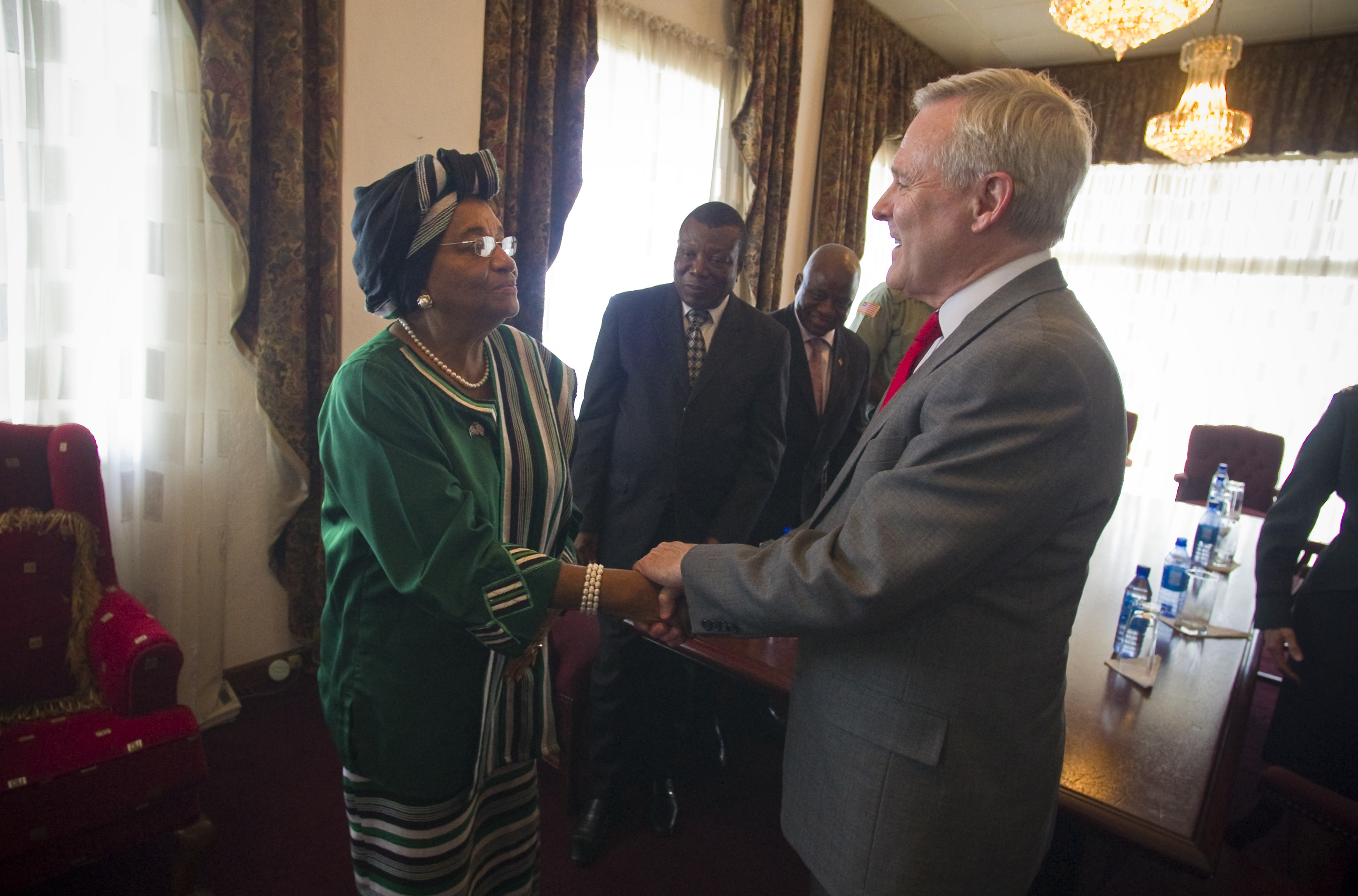 MONROVIA, Liberia (May 31, 2011) Secretary of the Navy (SECNAV) the Honorable Ray Mabus meets with Liberian President Ellen Johnson Sirleaf at the Ministry of Foreign Affairs building in Monrovia, Liberia. (U.S. Navy photo by Mass Communication Specialist 2nd Class Kevin S. O'Brien/Released)